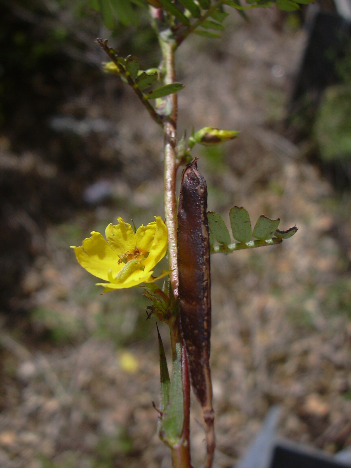 Chamaecrista nictitans (flower and seedpod). Location: Maui, Haiku